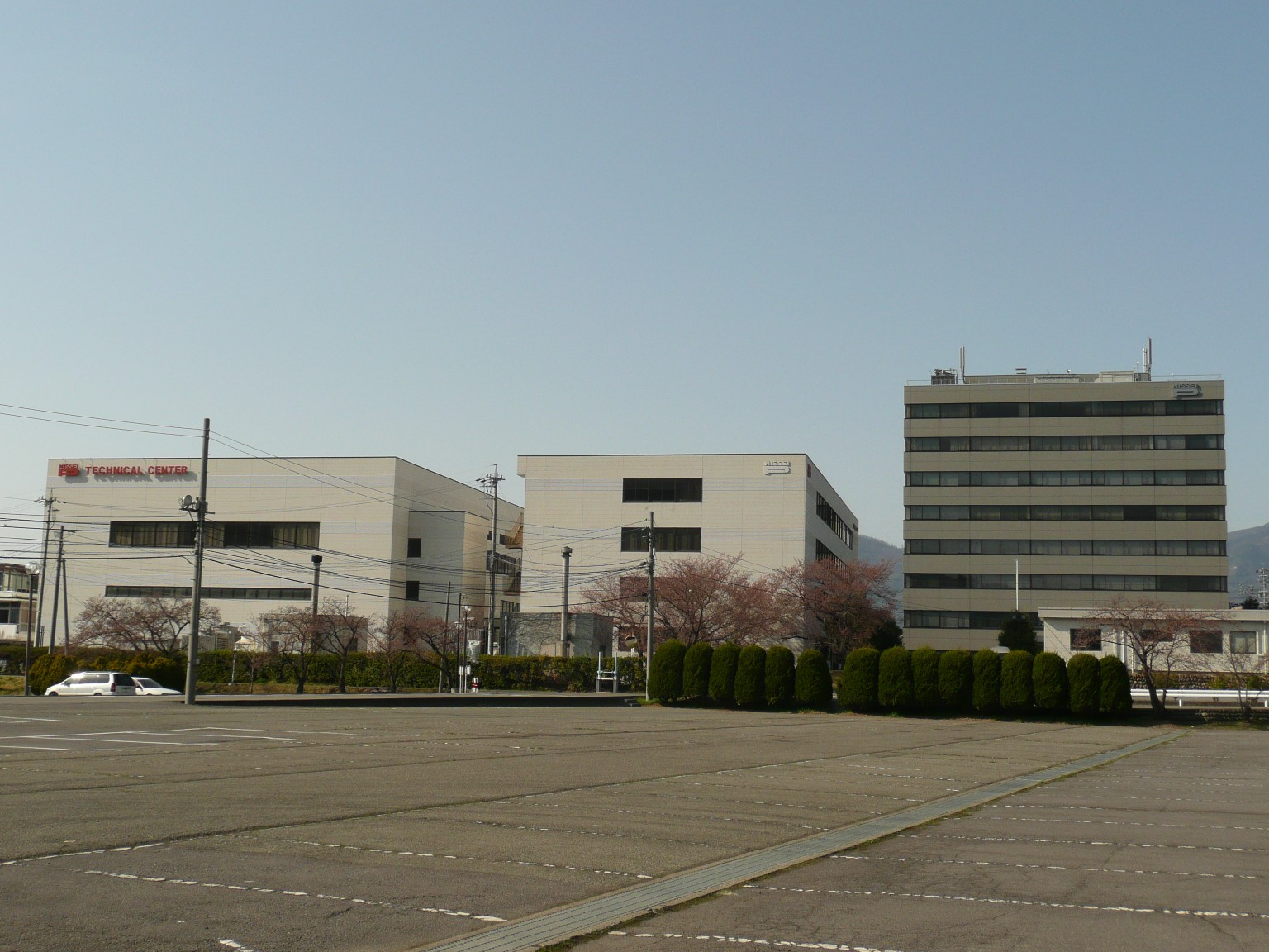 日精樹脂工業 本社。長野県埴科郡坂城町。 The head office of Nissei Plastic Industrial Co., Ltd. in Sakaki, Nagano, Japan.